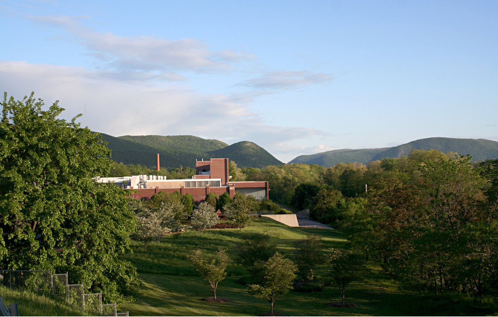 Photograph of the entrance to the Dia:Beacon Museum, United States of America